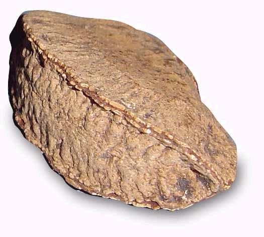 Brazil Nut (Bertholletia excelsa)